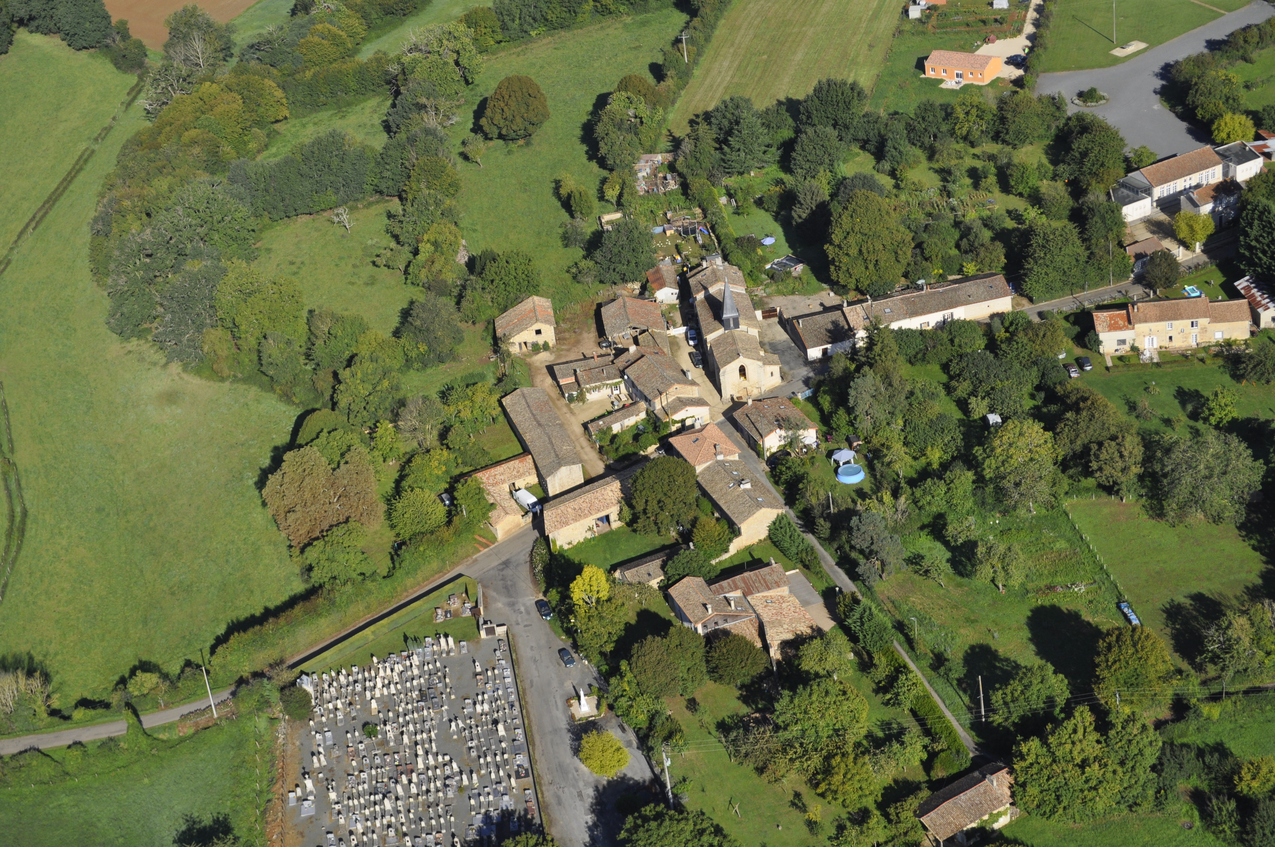 Saint-Coutant from the air